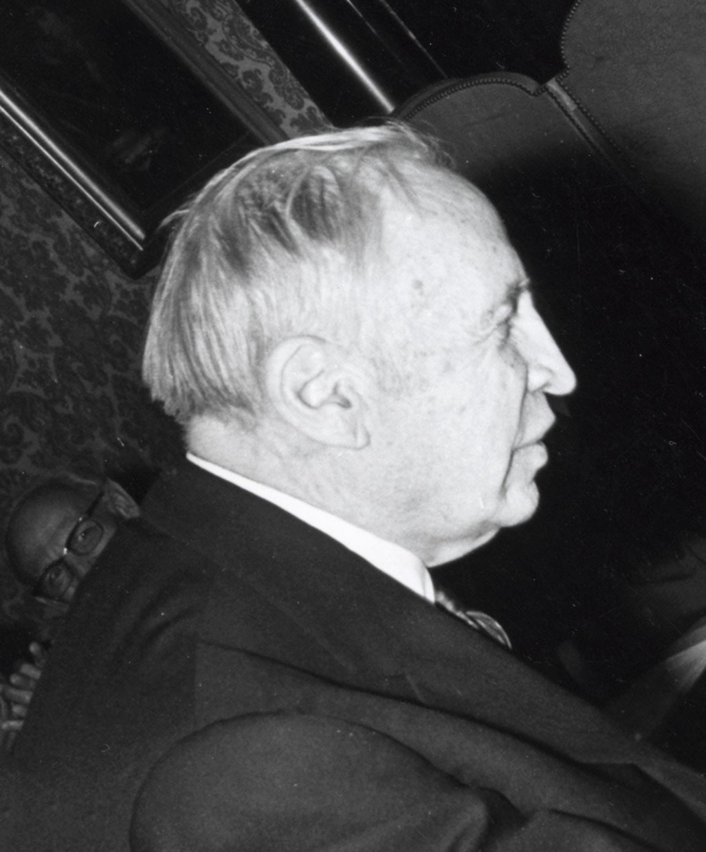 John Hasbrouck Van Vleck receives the Lorentz Medal from Hendrik Brugt Gerhard Casimir at the Royal Netherlands Academy of Arts and Sciences, Amsterdam